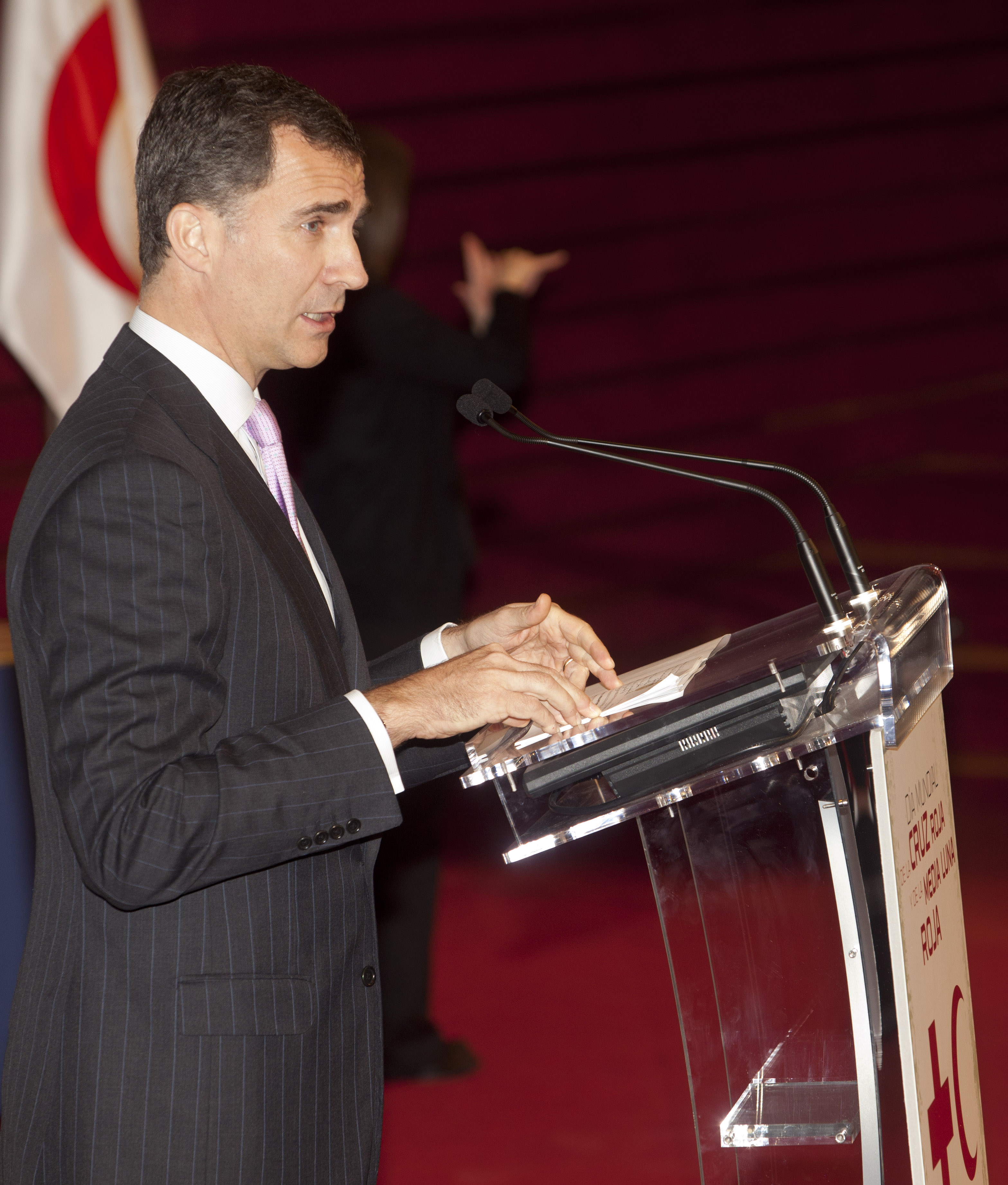 The Prince of Asturias, Felipe de Borbón, in the World Red Cross and Red Crescent Day in Vitoria-Gasteiz